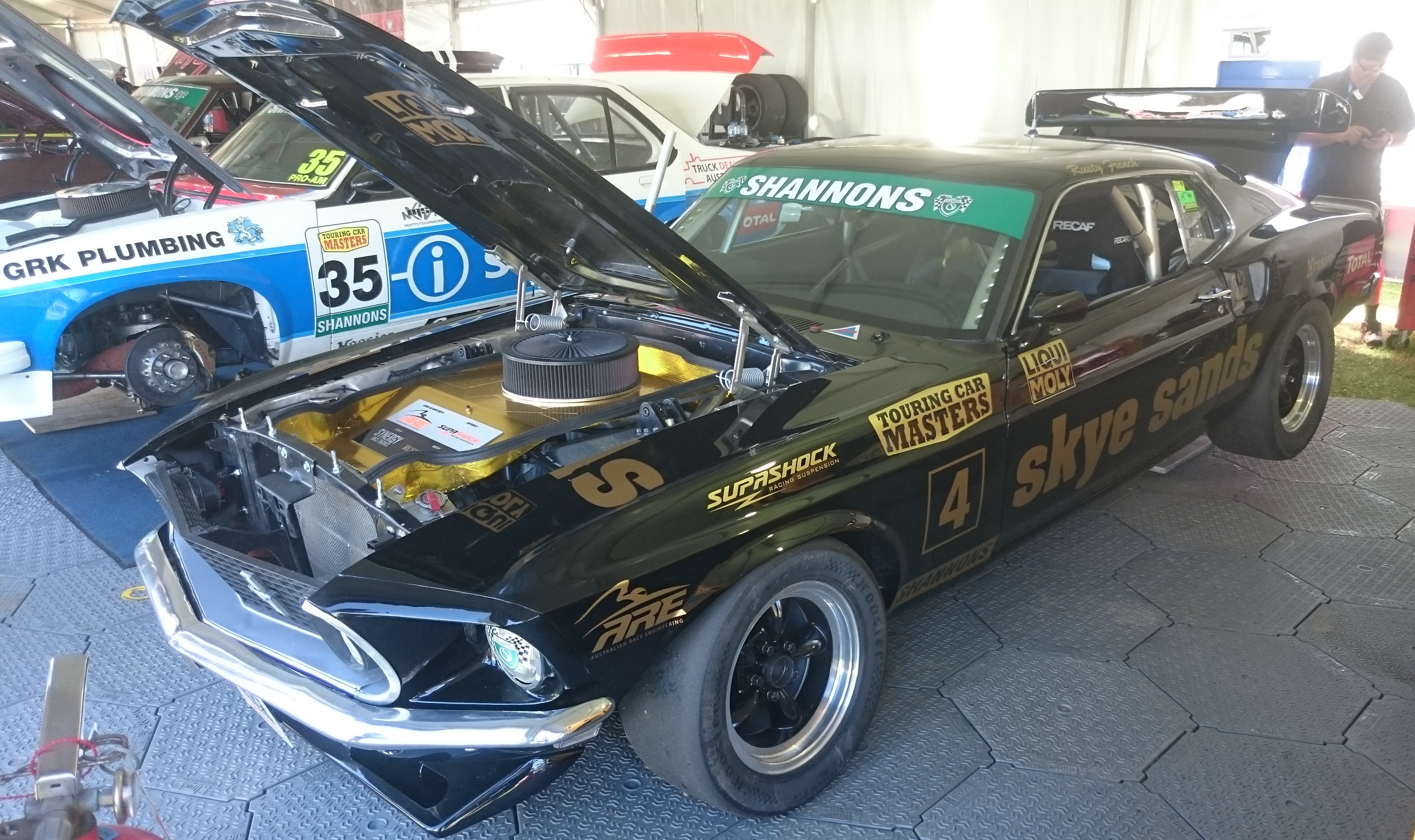 1969 Ford Mustang of Rusty French, Round 1, 2016 Touring Car Masters, Adelaide Parklands Circuit